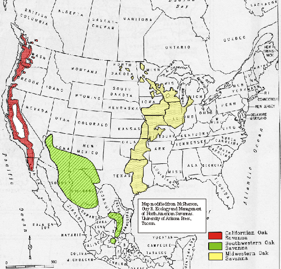 Map of Oak savanna distribution in North America. An ecoregion of the Temperate grasslands, savannas, and shrublands Biome.